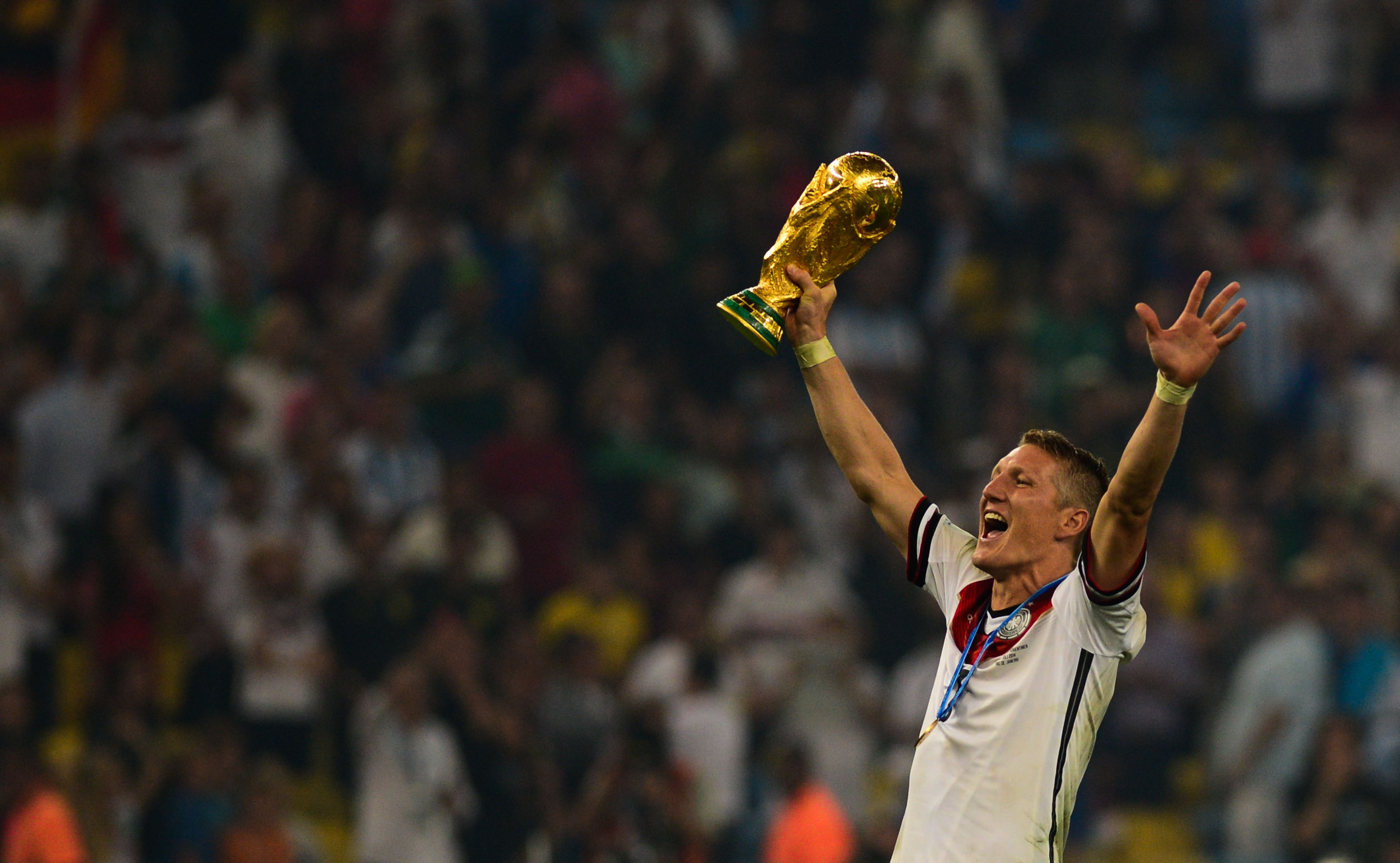 Bastian Schweinsteiger celebrates